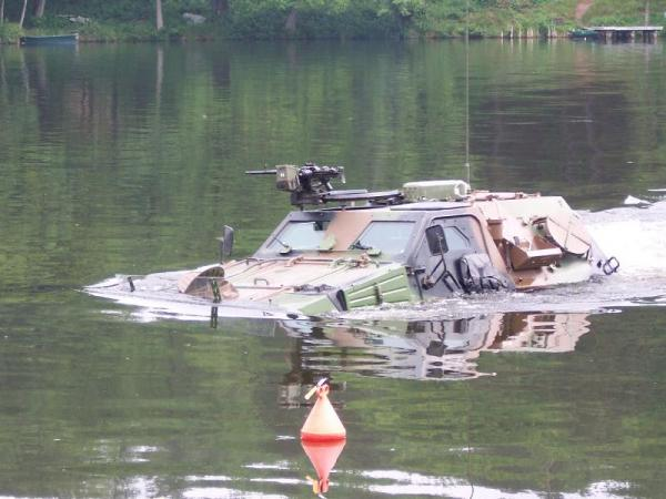 Mexican VBL traveling amphibiously during disaster relief